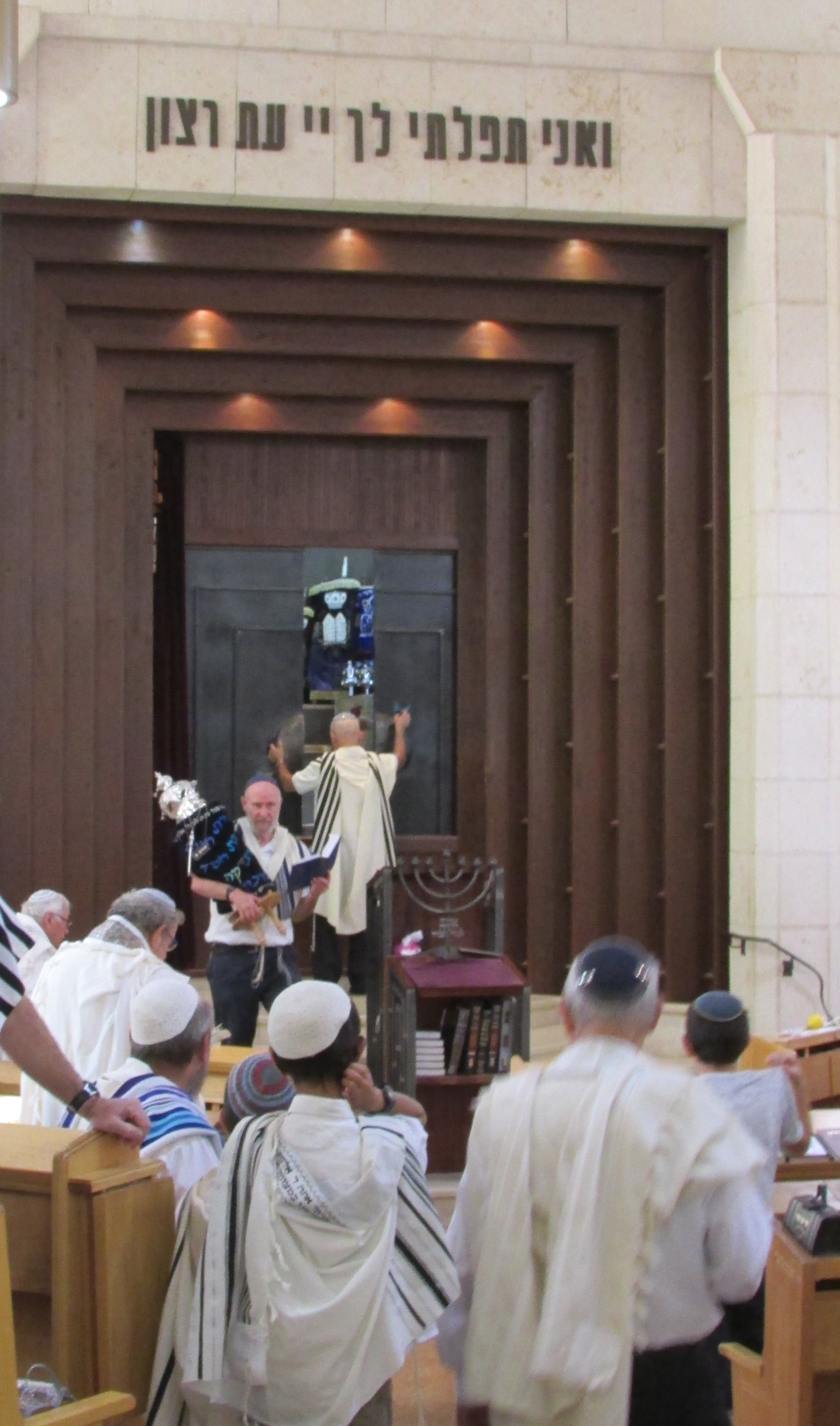 Taking out the Torah scroll in the Ofra main synagogue